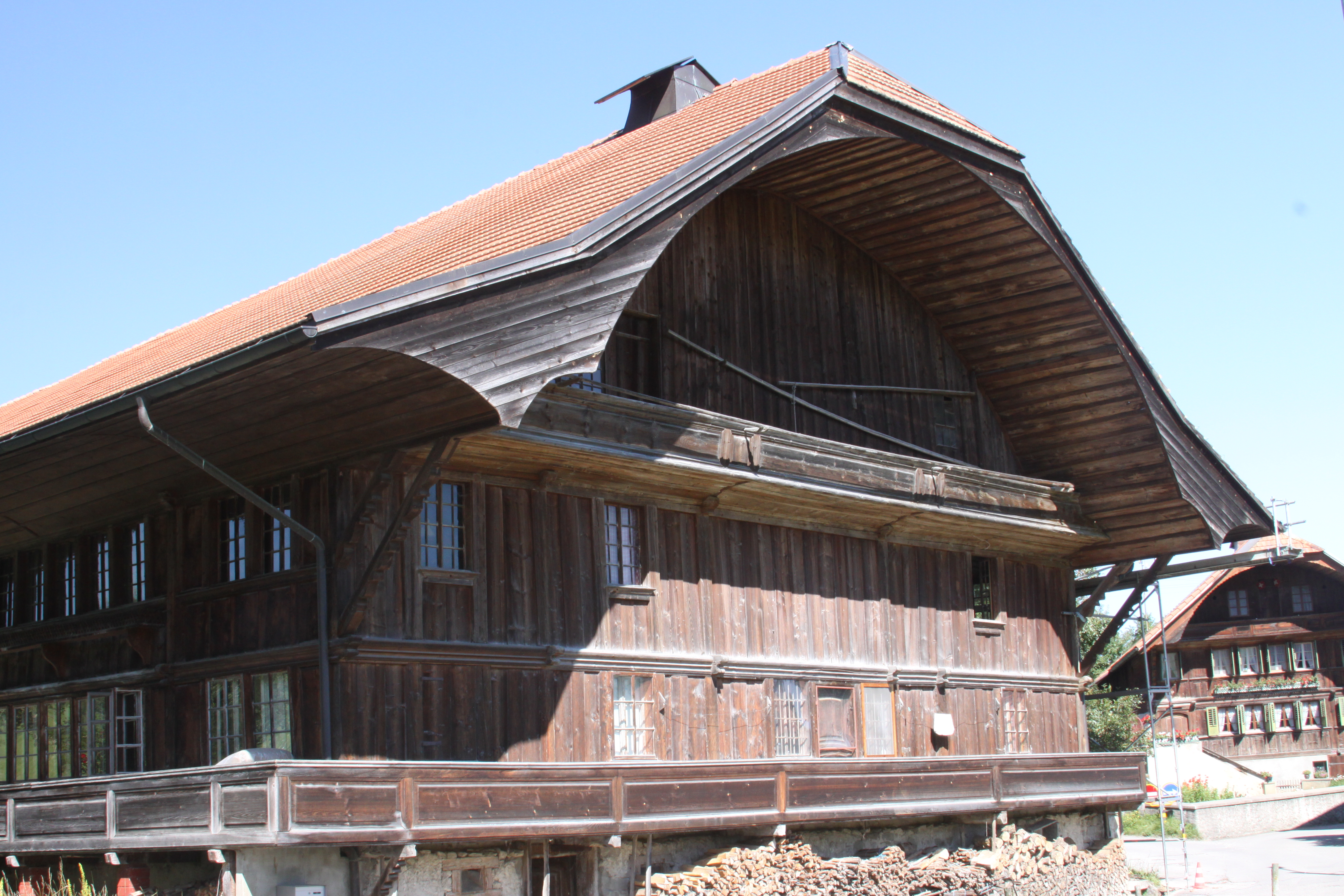 Farmhouse, Route de l'Église 47, Hauteville